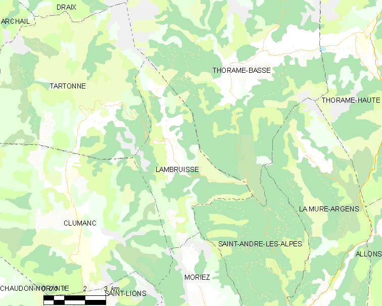 Map commune FR insee code 04099.png Légende